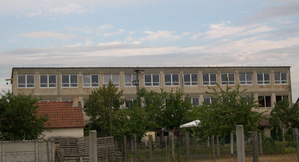 Abandoned building in Esztergom. After the renovations it will be the temporary home of the St. Stephen Highschool.